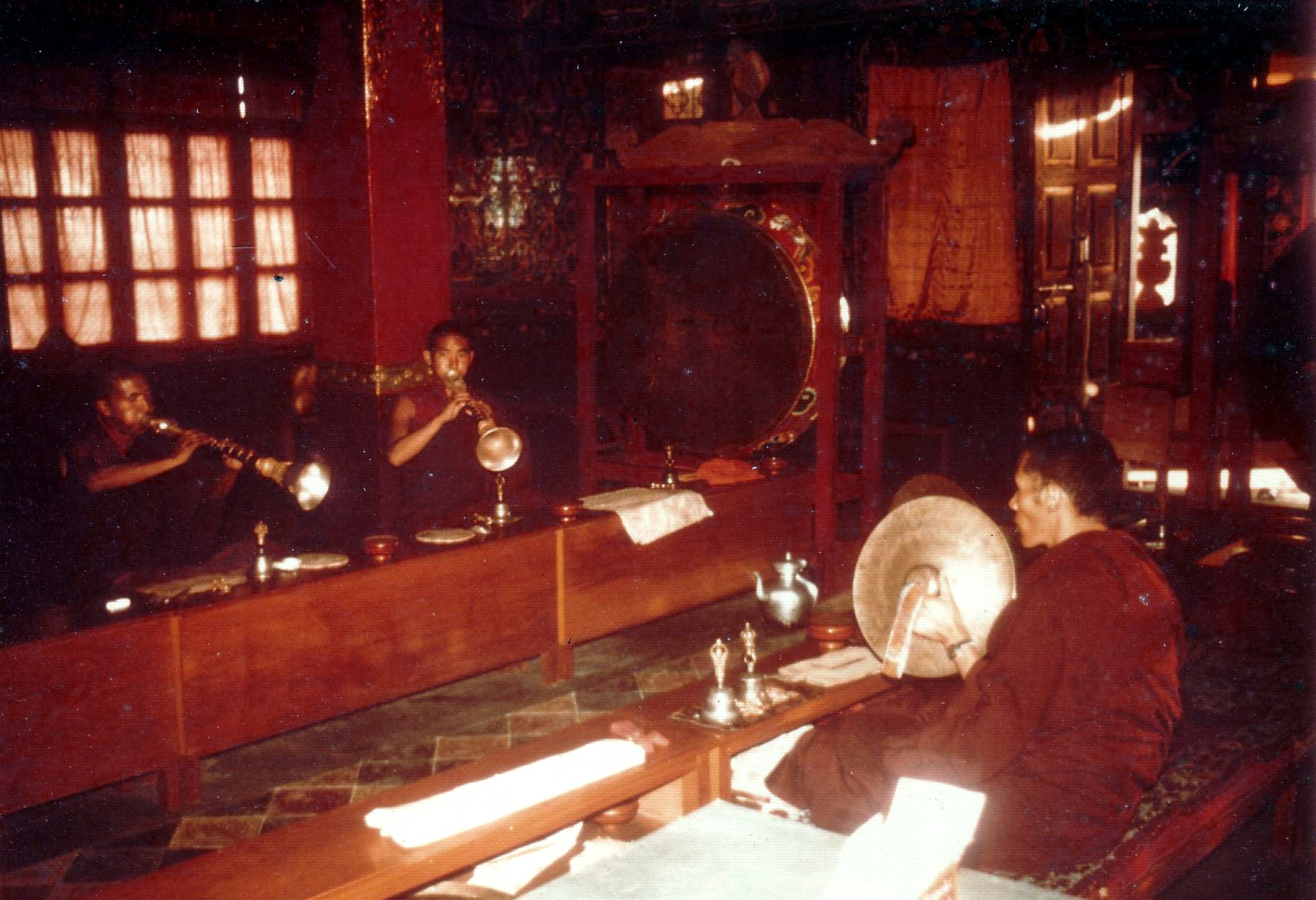 I took this photo myself in 1973 at a gompa near Boudhanath, Nepal.